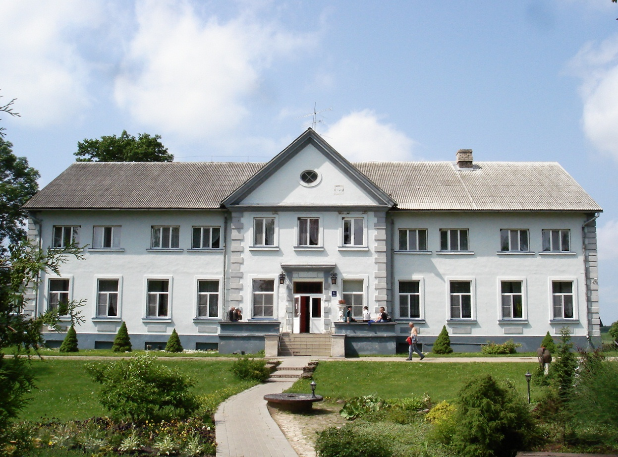 manor